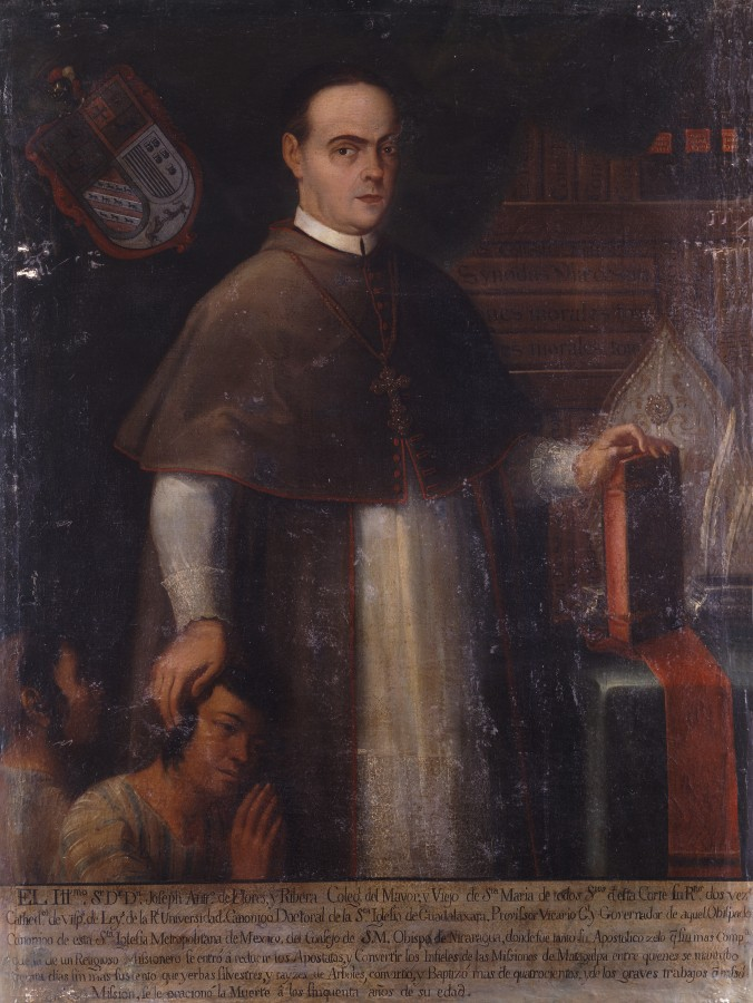 This painting shows His Most Reverend José Antonio de Flores y Ribera, Bishop of Nicaragua and Costa Rica between 1753 and 1756, who promoted the evangelization of indigenous people of Matagalpa.